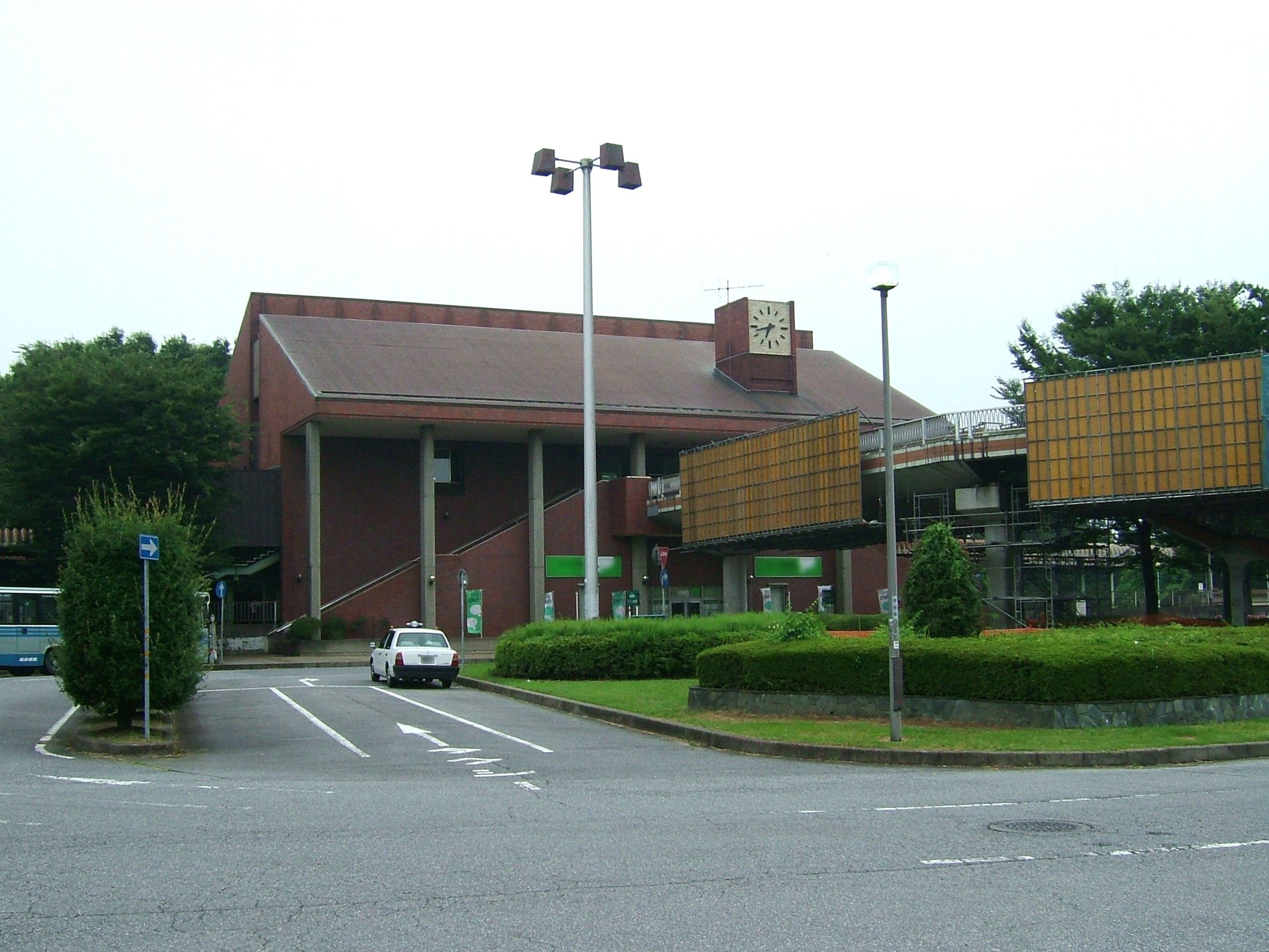 The building of Shin-Moriya Station(Kanto Railway Jōsō Line)